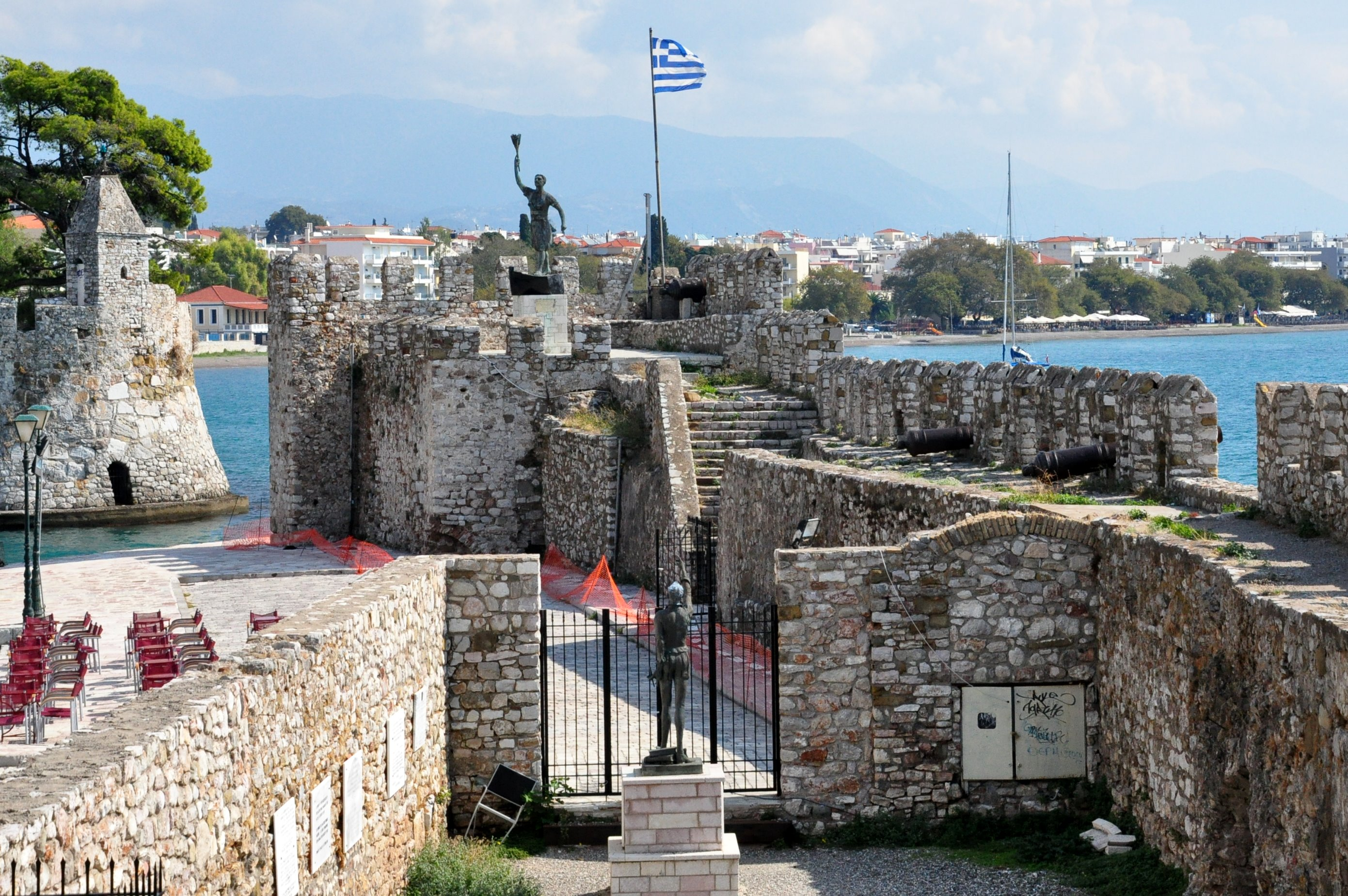 Port of Nafpaktos, fortiffications and statues of Cervantes, and Georgios Anemogiannis (the national hero of 1821 uprising)